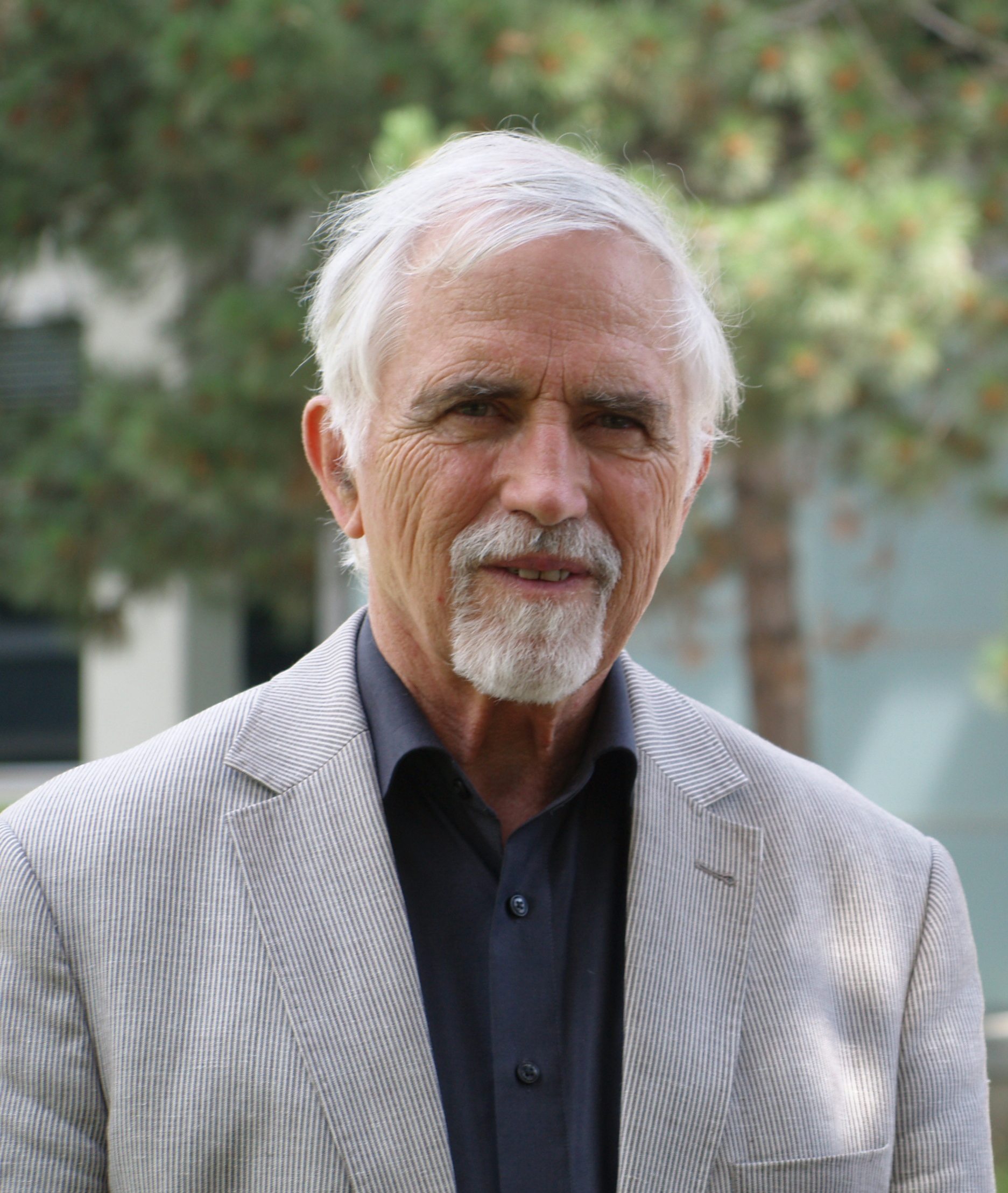 Rudolf Wille 29 June 2012 In front of the math building of Technical University of Darmstadt